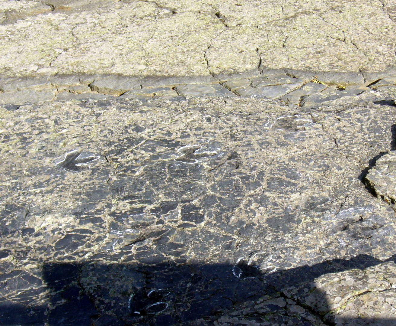 Ichnites of dinosaurs in the site of Santa Cruz de Yanguas, Soria, Spain.